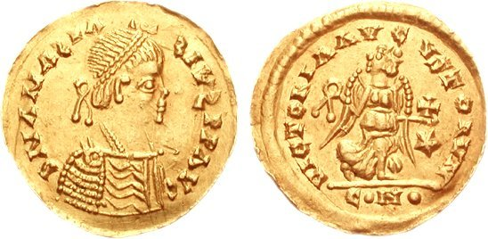 Ostrogoths. Theodoric. 493-526. AV Tremissis (1.41 g, 5h). In the name of Anastasius I. Mediolanum (Milan) mint. Struck circa 491-501. D N ΛNΛSTΛ-SIVSP F ΛVG (all S retrograde), diademed and cuirassed bust right VICTORIΛ ΛVGVSTORVN, Victory advancing right, head left, holding wreath in right hand, cross in left; star to right; CONO. COI 24; MIB I -; MEC 1, -; cf. Demo 62 (Ticinum). EF, light hairlines.